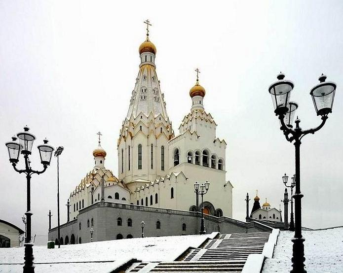 Church of All Saints, Minsk